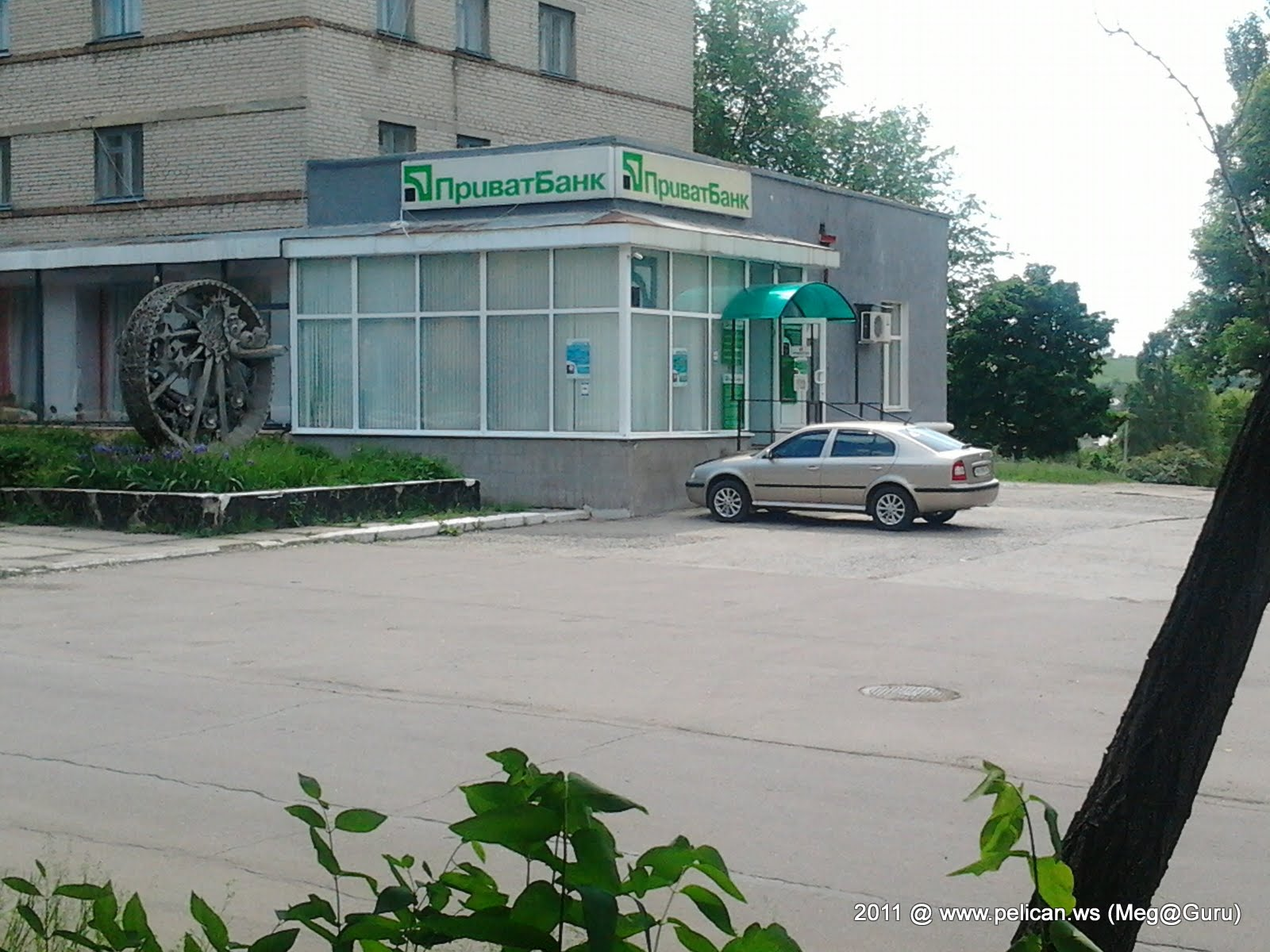 PrivatBank in Nikolaevka city, Donetsk oblast, Ukraine